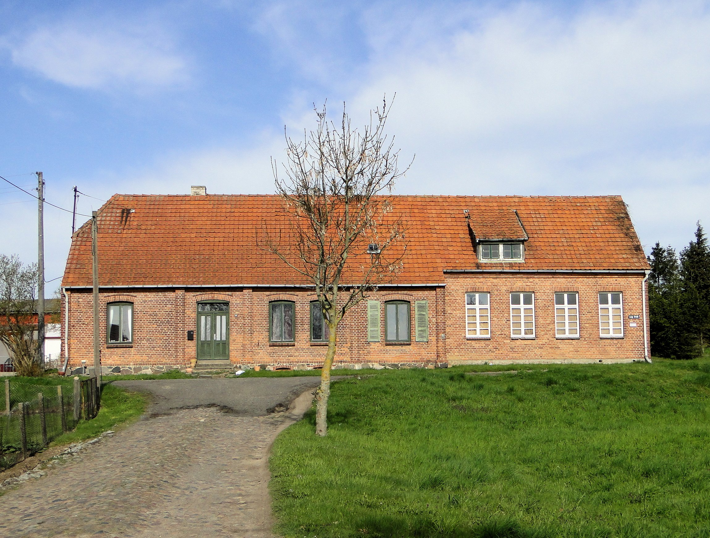 Former school in the Lange Straße / Cultural heritage monument in Augzin, district Ludwigslust-Parchim, Mecklenburg-Vorpommern, Germany